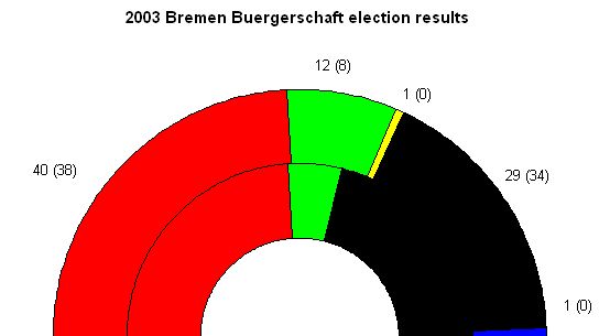 Results of the 2003 Landtag election in Bremen SDP in red, CDU in black, Greens in green, FDP in yellow, DVU in brown Created by Willhsmit.